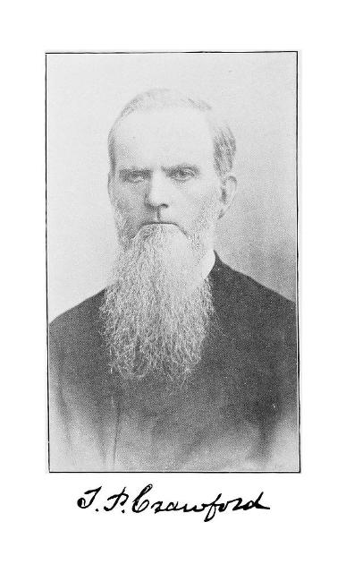 Dr. T.P. Crawford taken from "Fifty Years in China: An Eventful Memoir of Tarleton Perry Crawford, D.D."